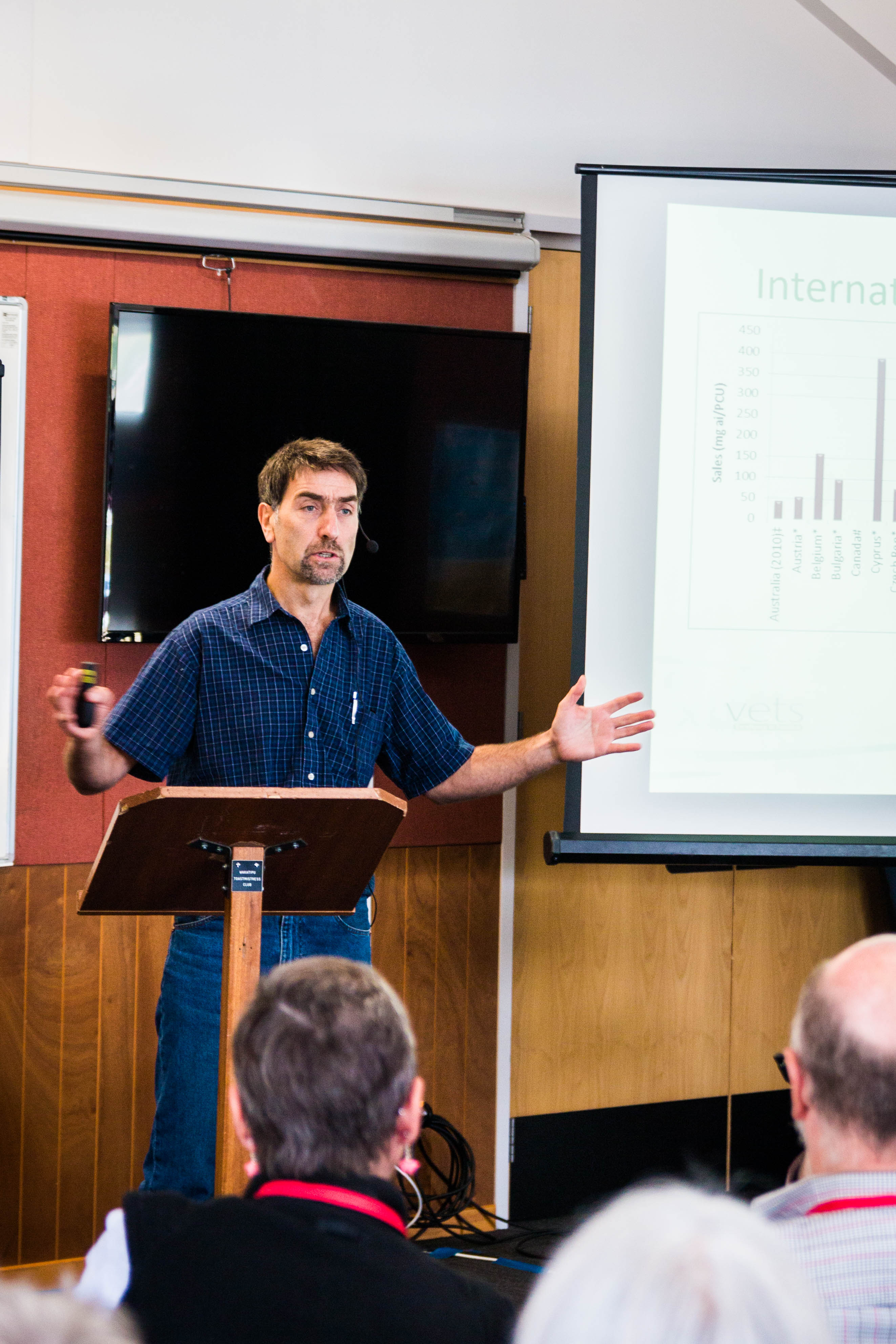 Mark Bryan speaking at NZ Skeptics Conference 2016